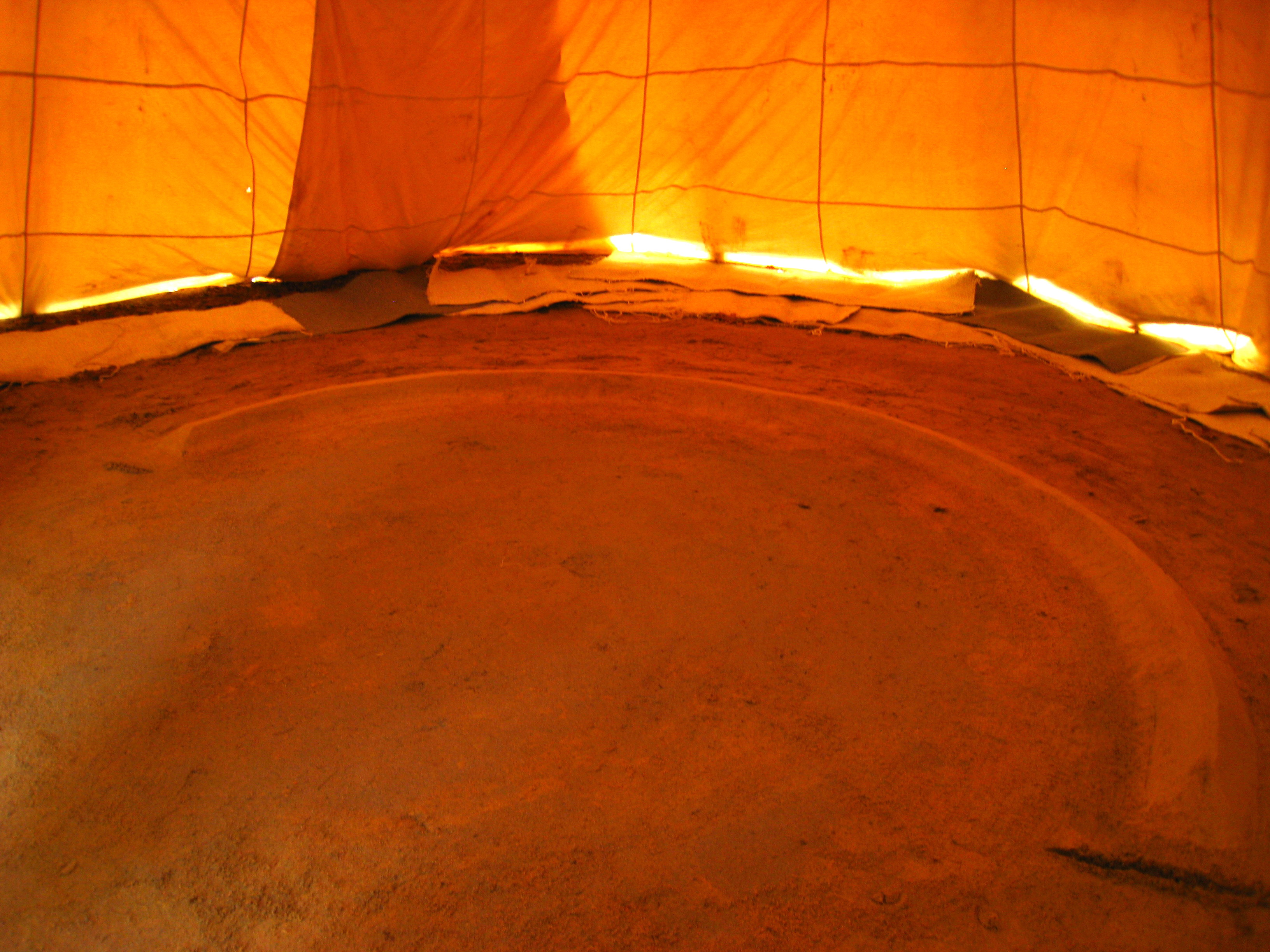 Peyote road sand half-circle